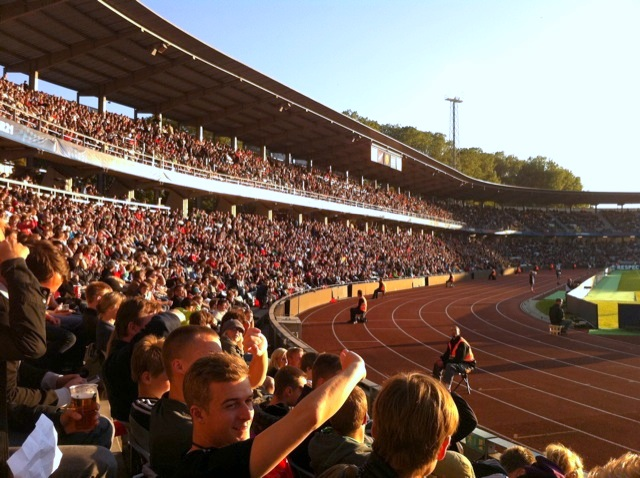 Aarhus stadion